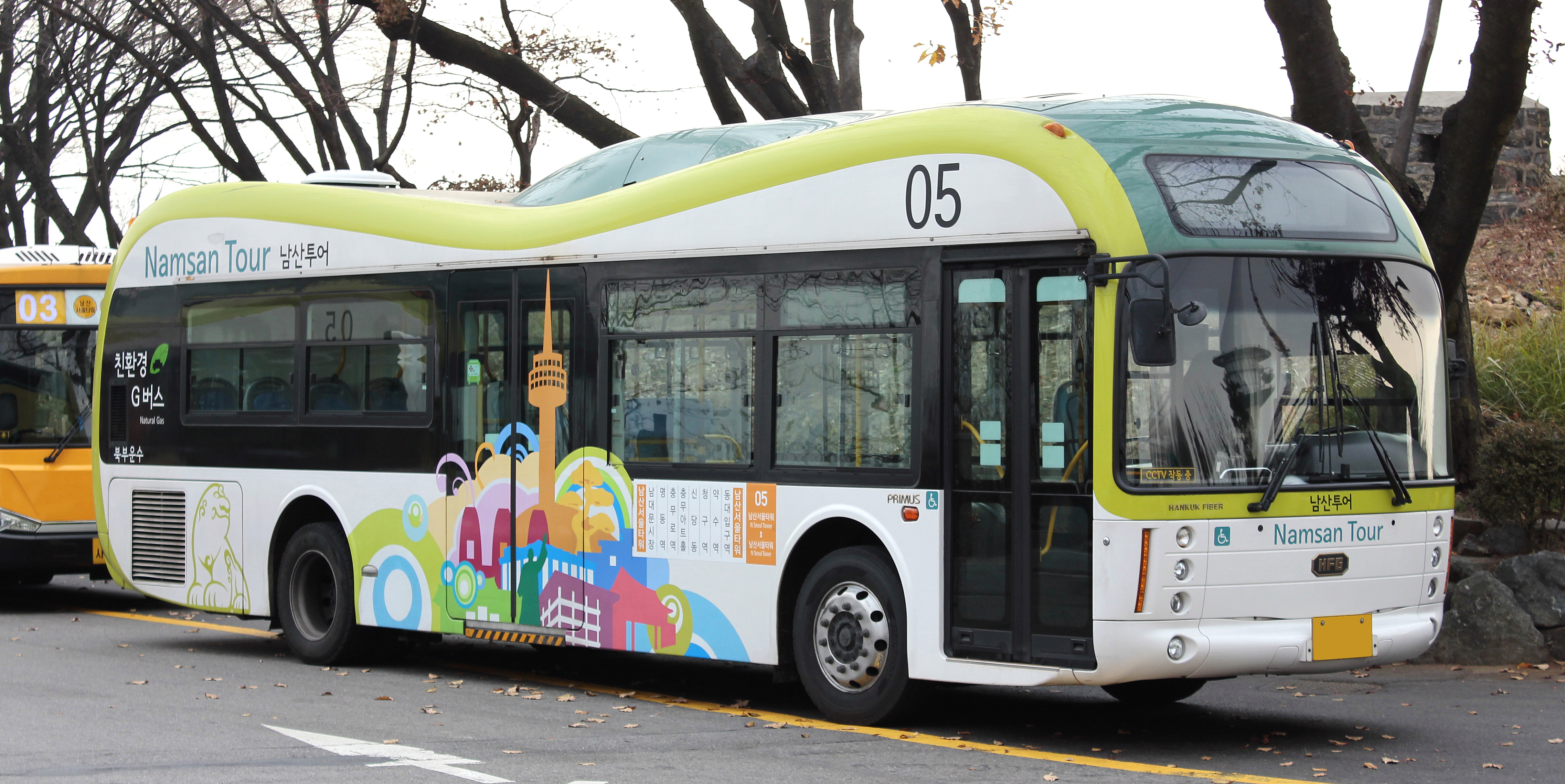 Seoul Bus Route 05 at N Seoul Tower.